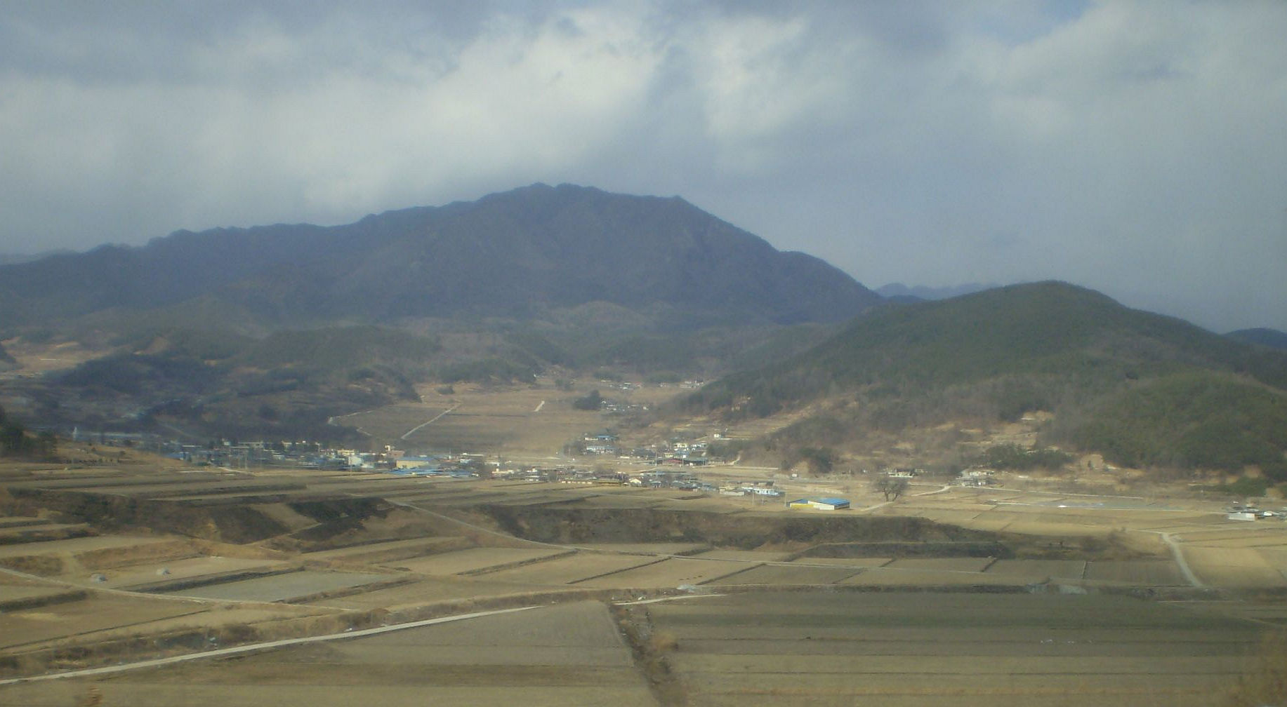 Winter rice fields in Geochang, Gyeongsangnam-do, South Korea.